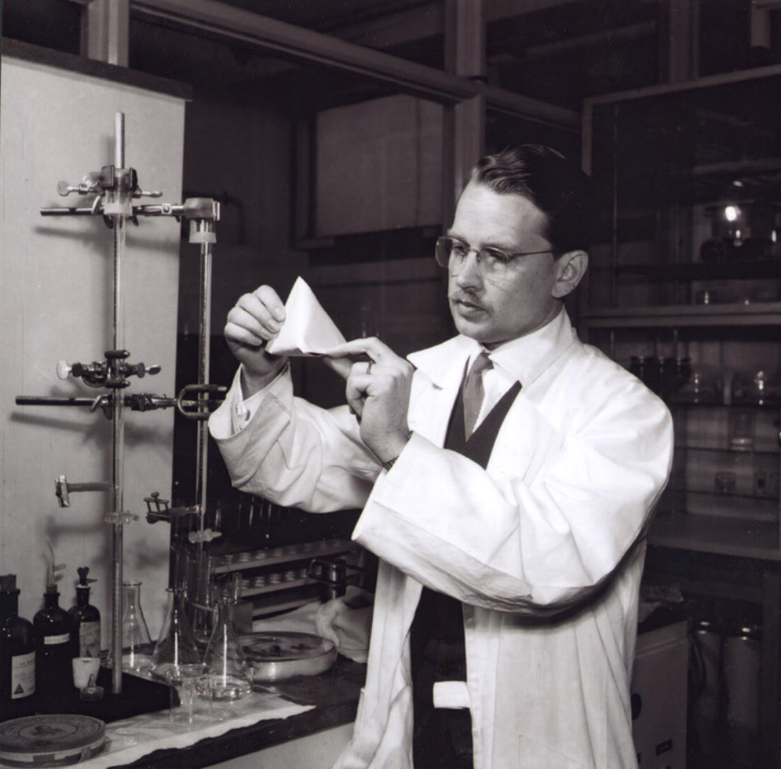 Erik Wallenberg, inventor of Tetra Pak's first package